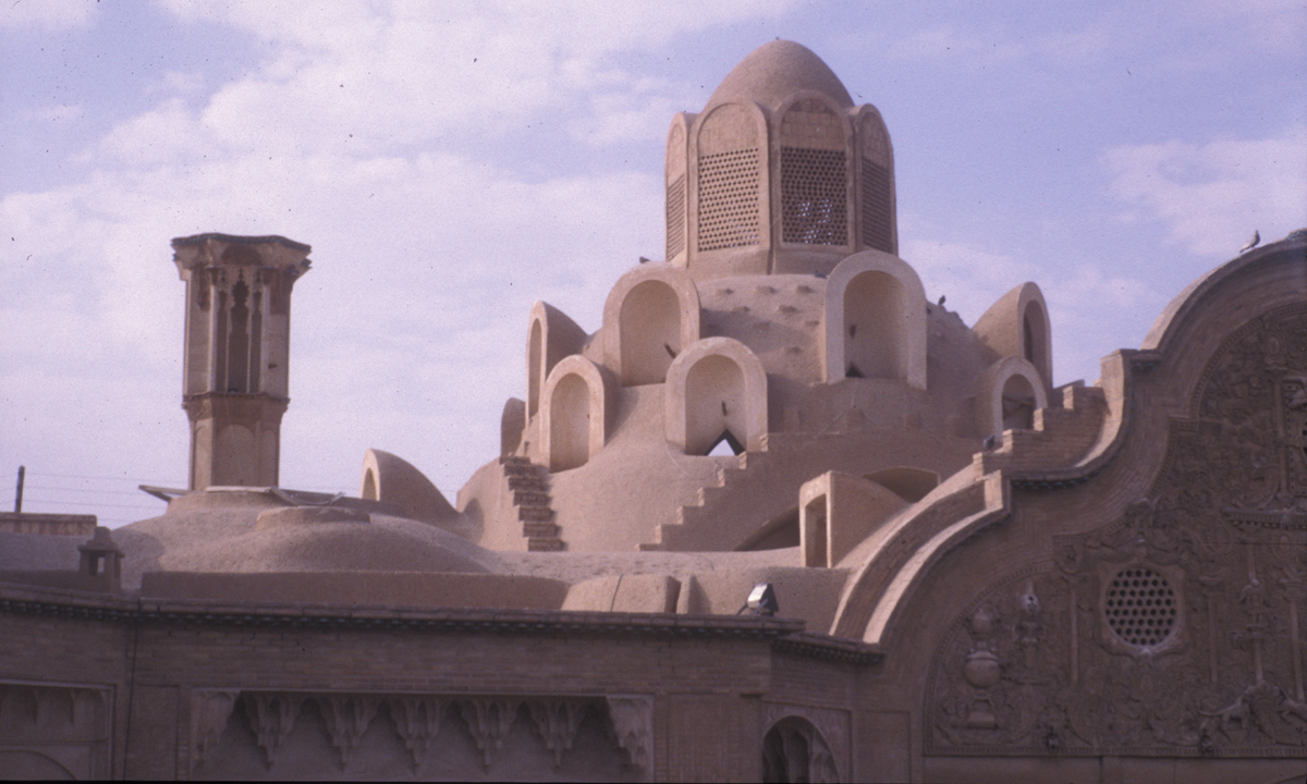 I took this photo with a Fuji 200 film camera